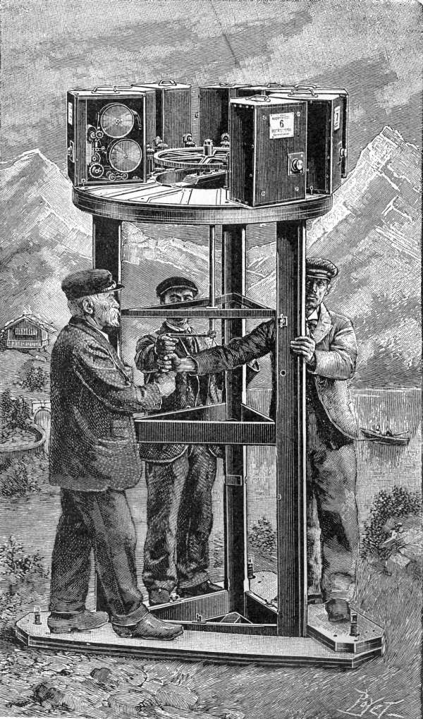 Illustration of the camera mechanism for the Cineorama balloon simulation, 1900 Paris Exposition